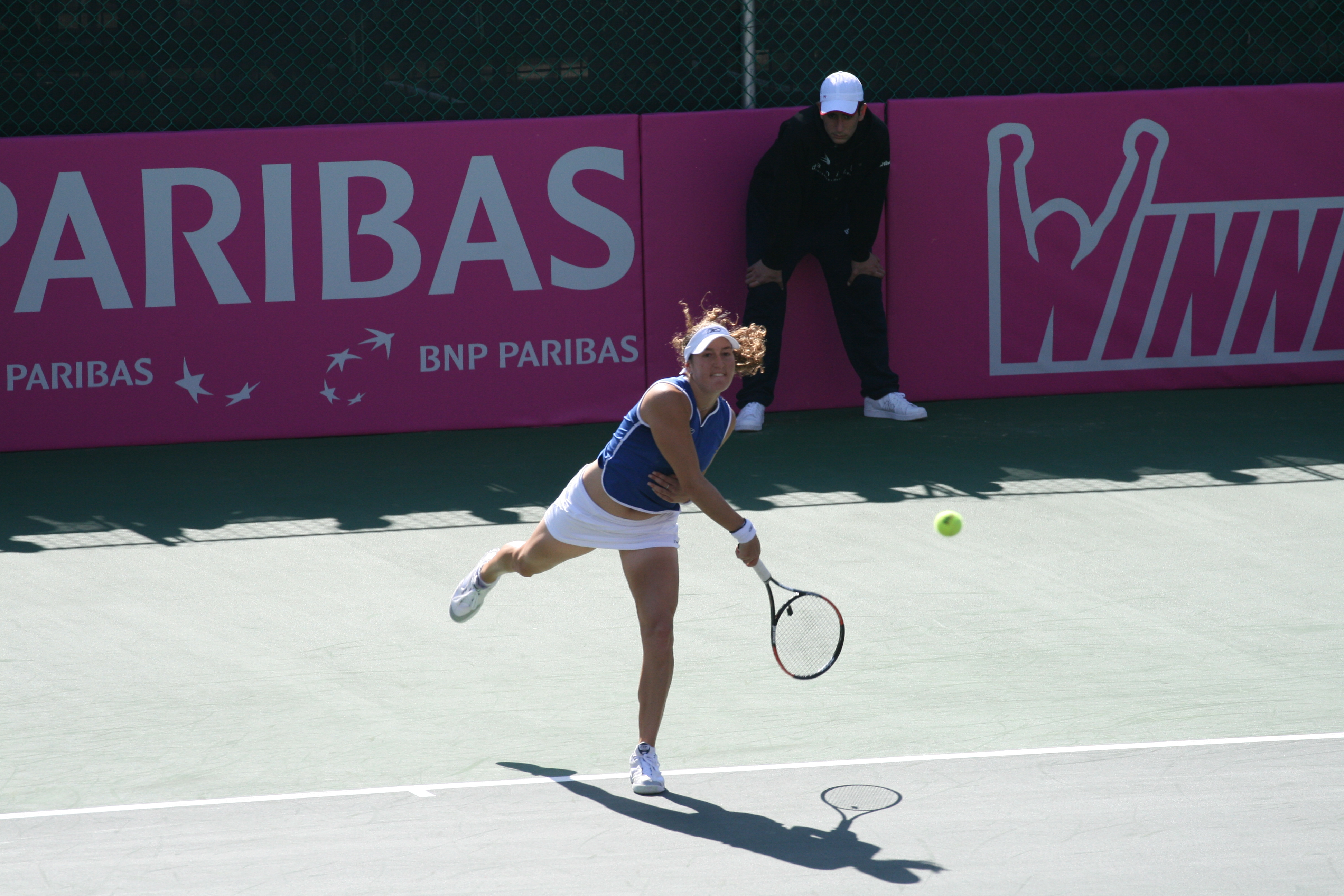 Shahar Peer serving. Fed Cup match vs. Safina. National Tennis Center, Ramat HaSharon, Israel